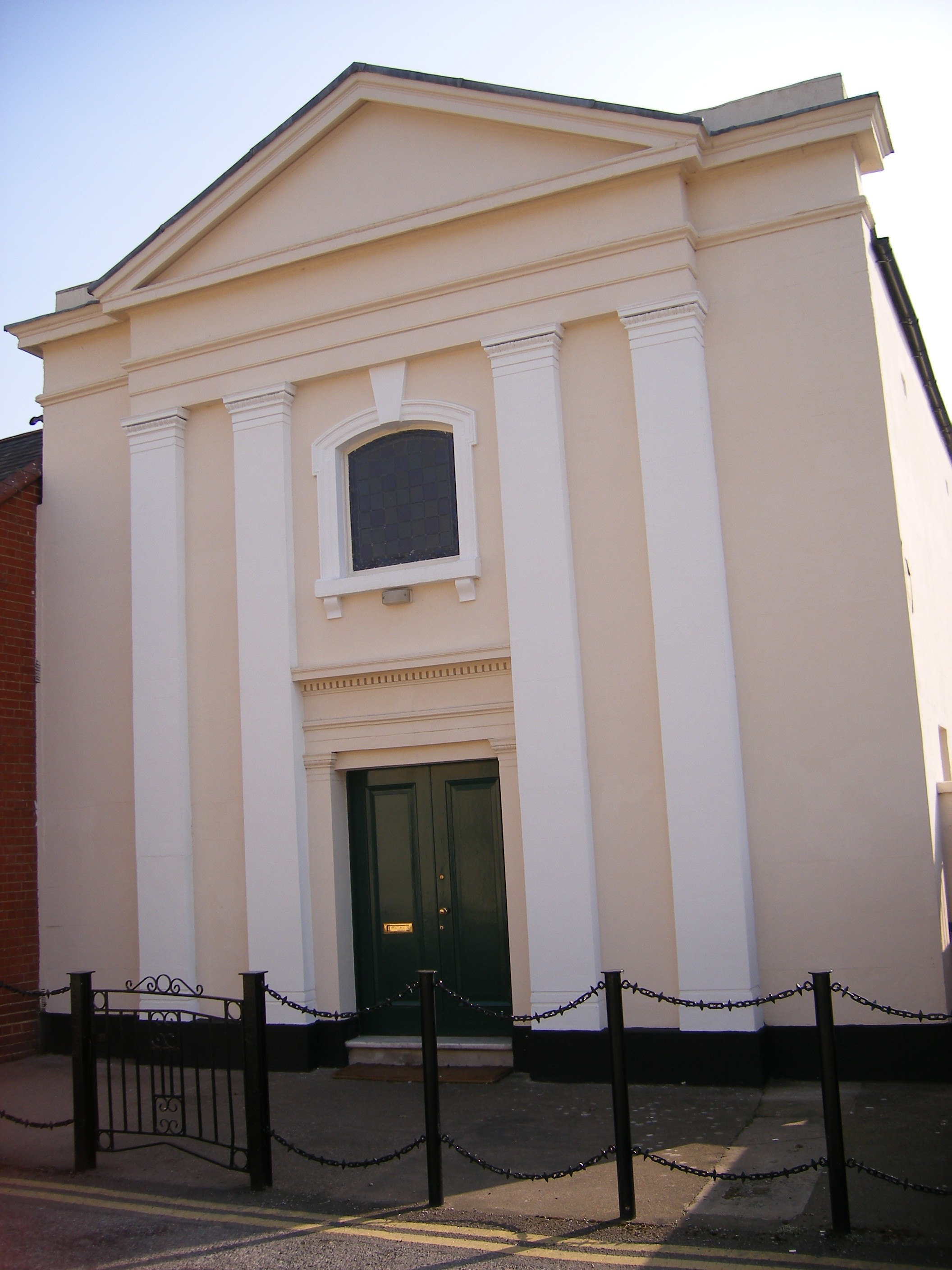 Synagogue on Synagogue Lane, Cheltenham, Gloucestershire, seen from the west